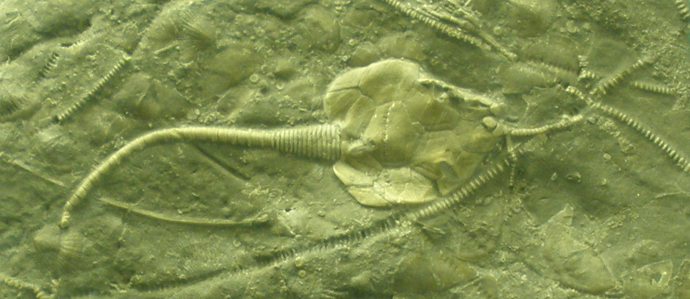 Fossil Pleurocystites squamosus on display at the Museo di Storia Naturale di Milano